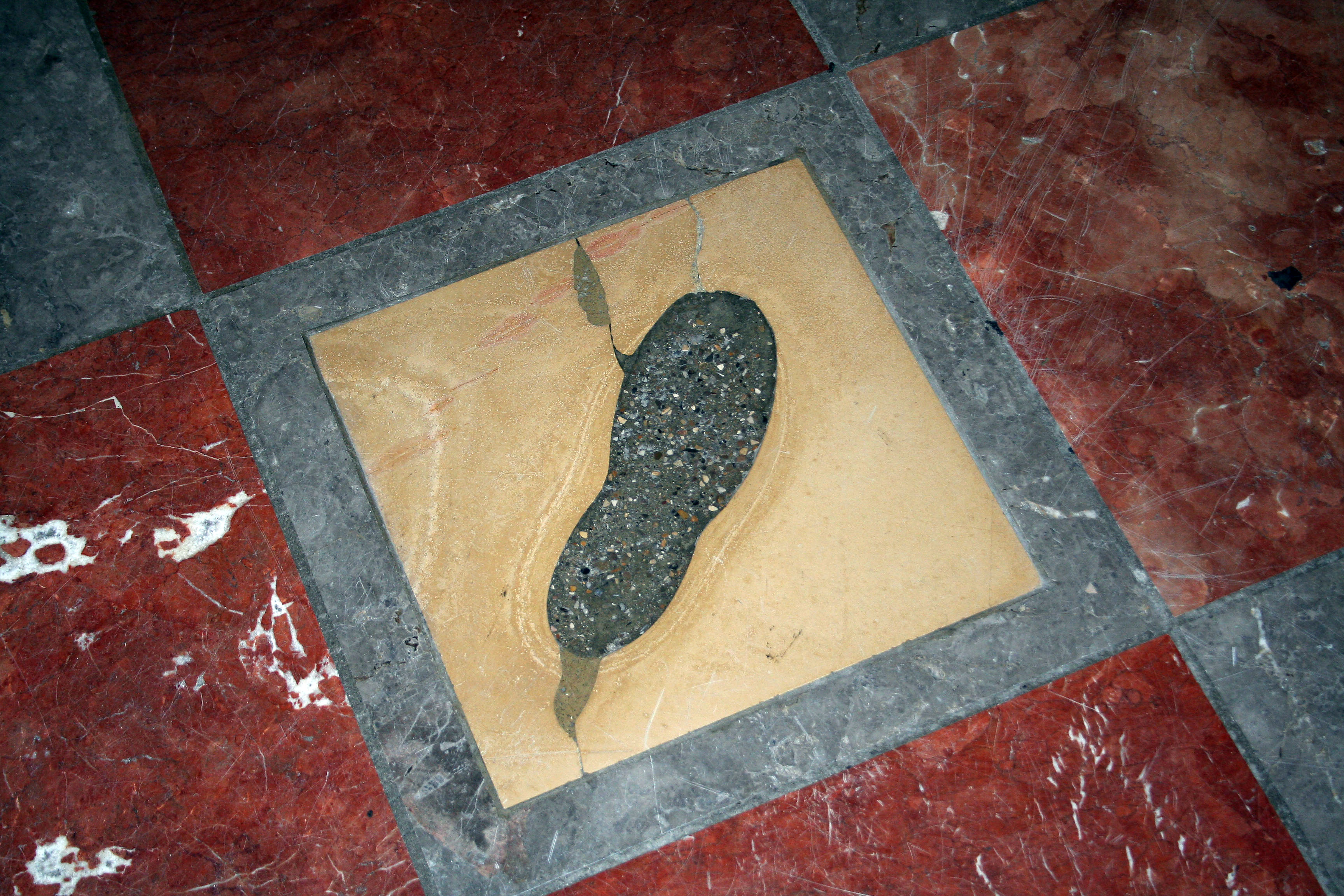 Munich, Frauenkirche, “Devil's Footstep” at the entrance.